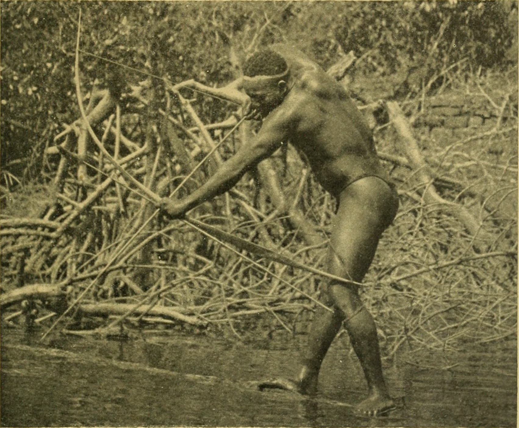 Title: The American Museum journal Year: c1900-(1918) (c190s) Authors: American Museum of Natural History Subjects: Natural history Publisher: New York : American Museum of Natural History Text Appearing Before Image: THE American Huseum Journal Text Appearing After Image: Volume IX April, 1909 Number 4 Published monthly from October to May hiclusive by The American Museum of Natural History New York City